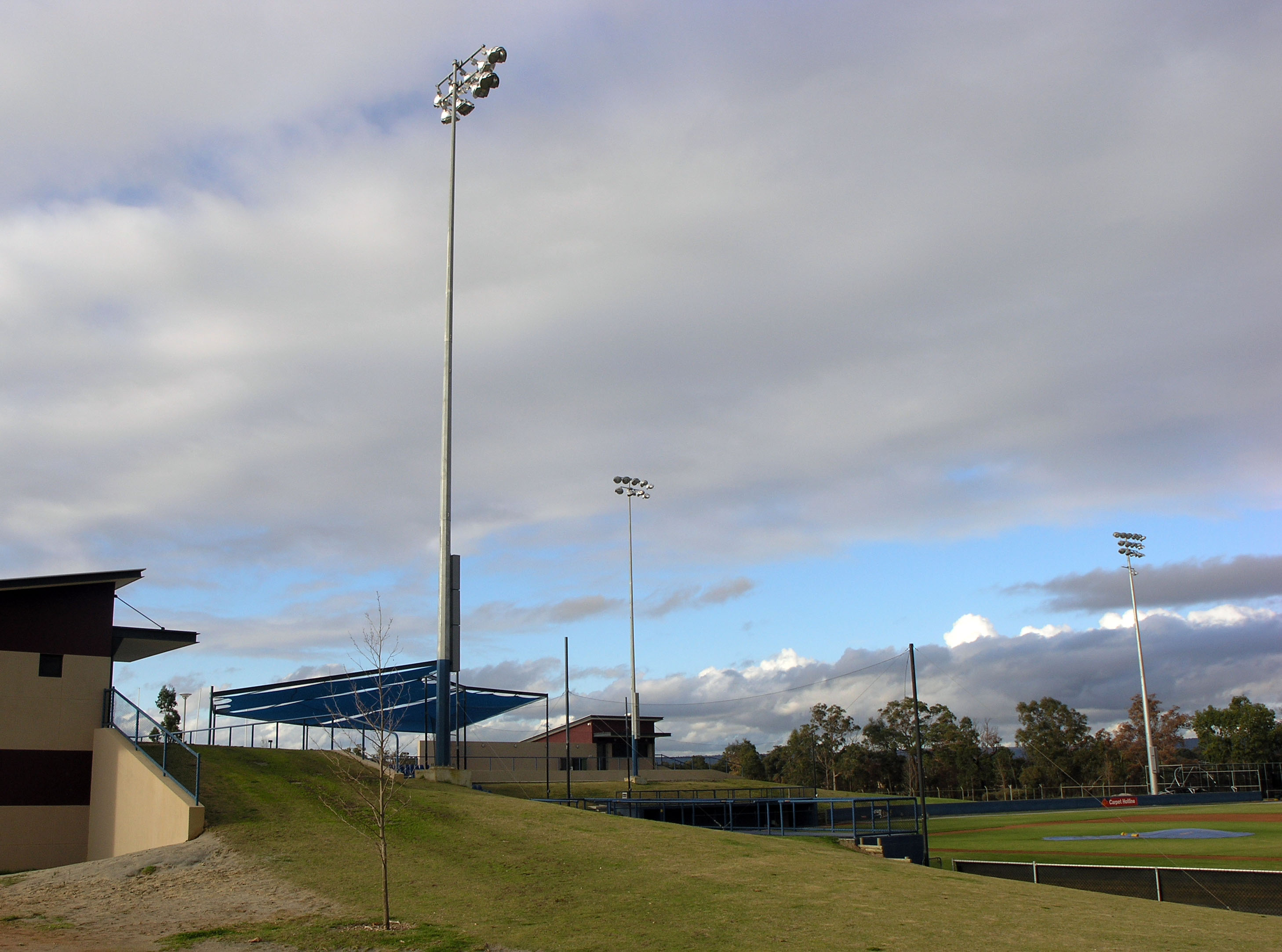 Taken by myself with an Olympus C8080W in 2007 in Perth, Western Australia.